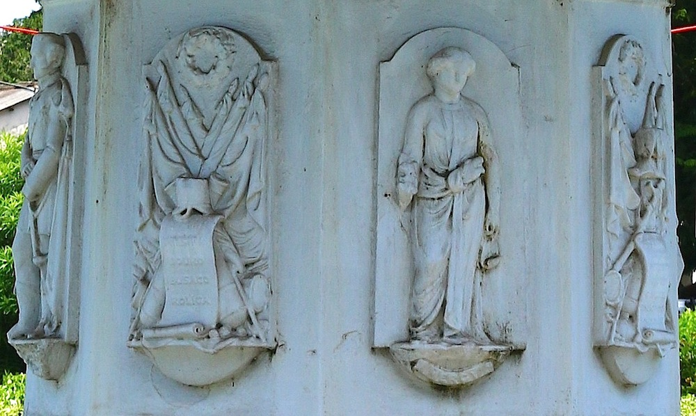 Bas-reliefs on Wellington Fountain, Bombay, commemorating the achievements of the duke.